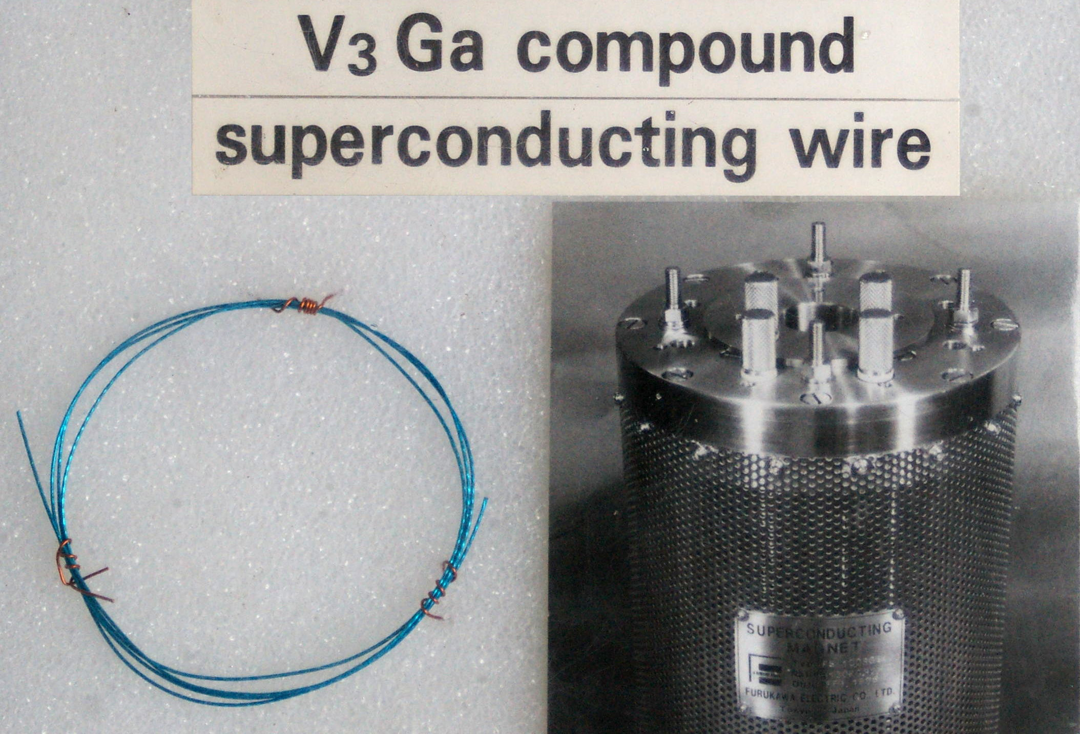 V3Ga superconducting wire used in a superconducting magnet. NIMS museum exhibit.